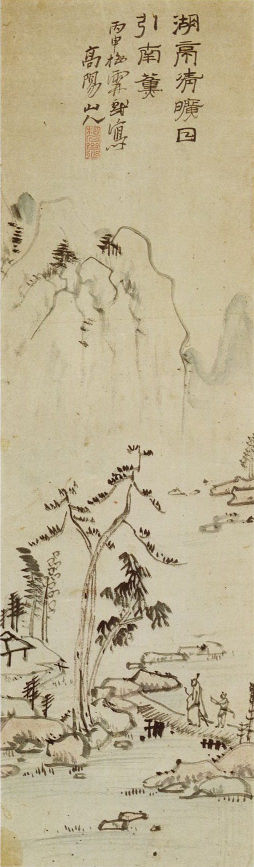 Lake Scenery with Lofty Scholars;hanging scroll,ink colors on paper 湖亭清曠図